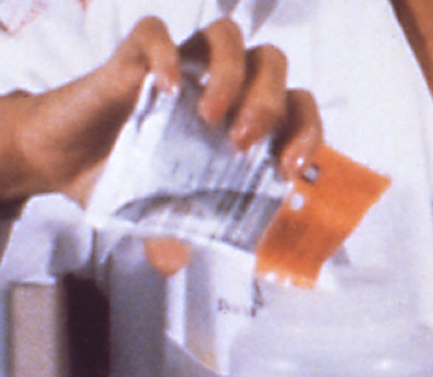 pouring of an ORS sachet into a bottle